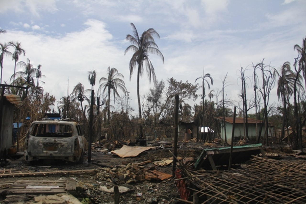 A burnt down house in a Rohingya village in northern Rakhine State, a result of sectarian violence in August 2017.